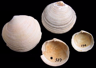 Lucinoma borealis; fossil marine bivalved shell from the North Sea.